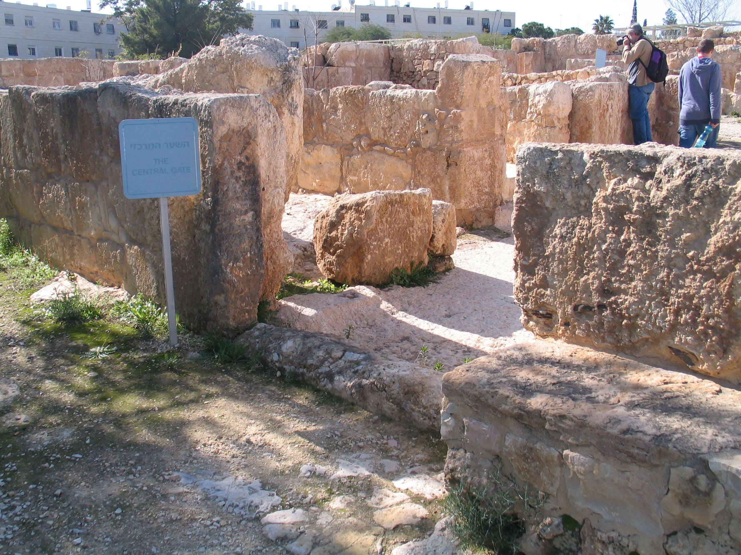 St Martyrius monastery, Maale Adumim